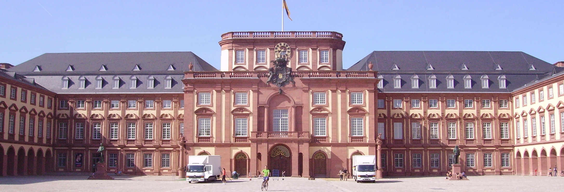 Mannheim Castle, Germany